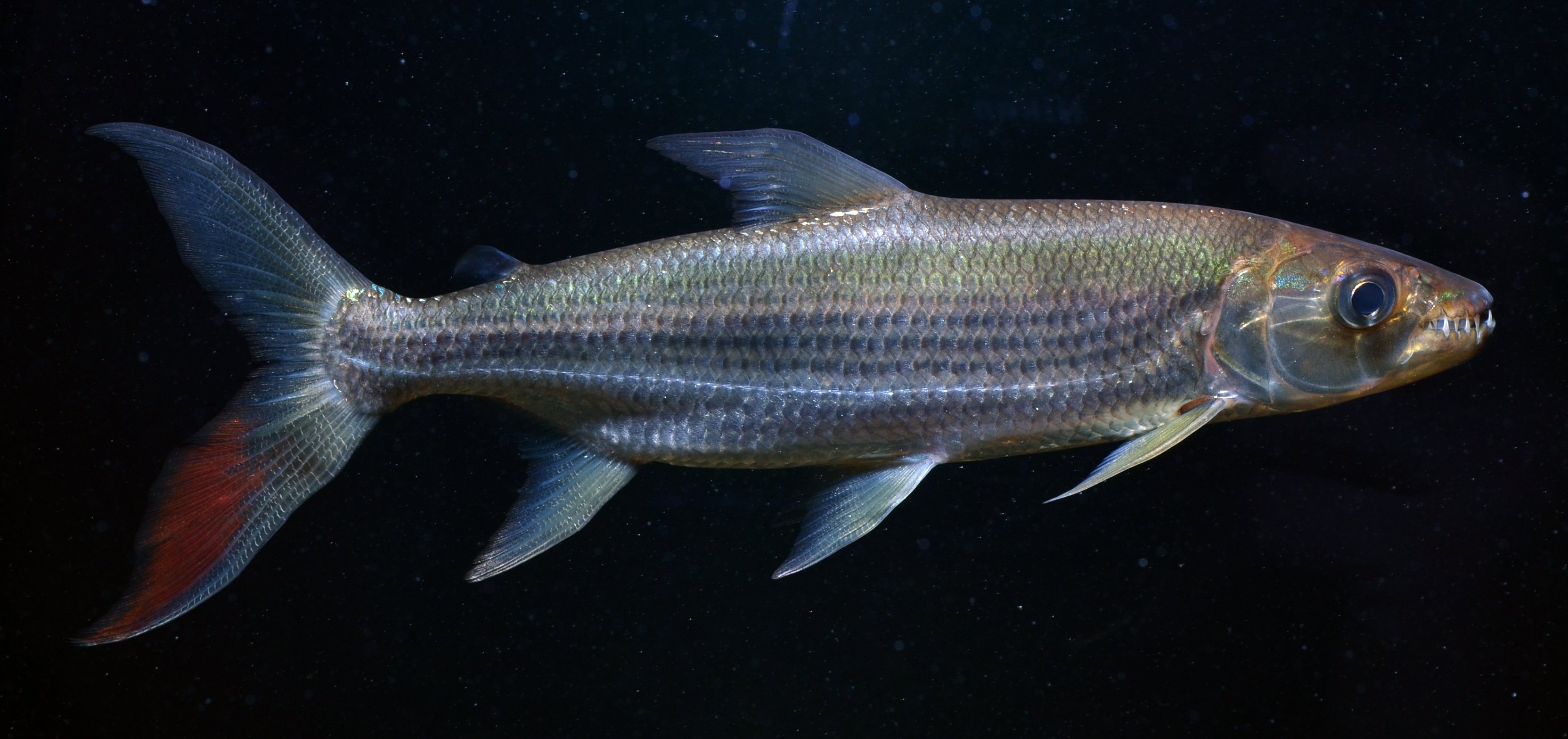 A young, tank raised specimen.